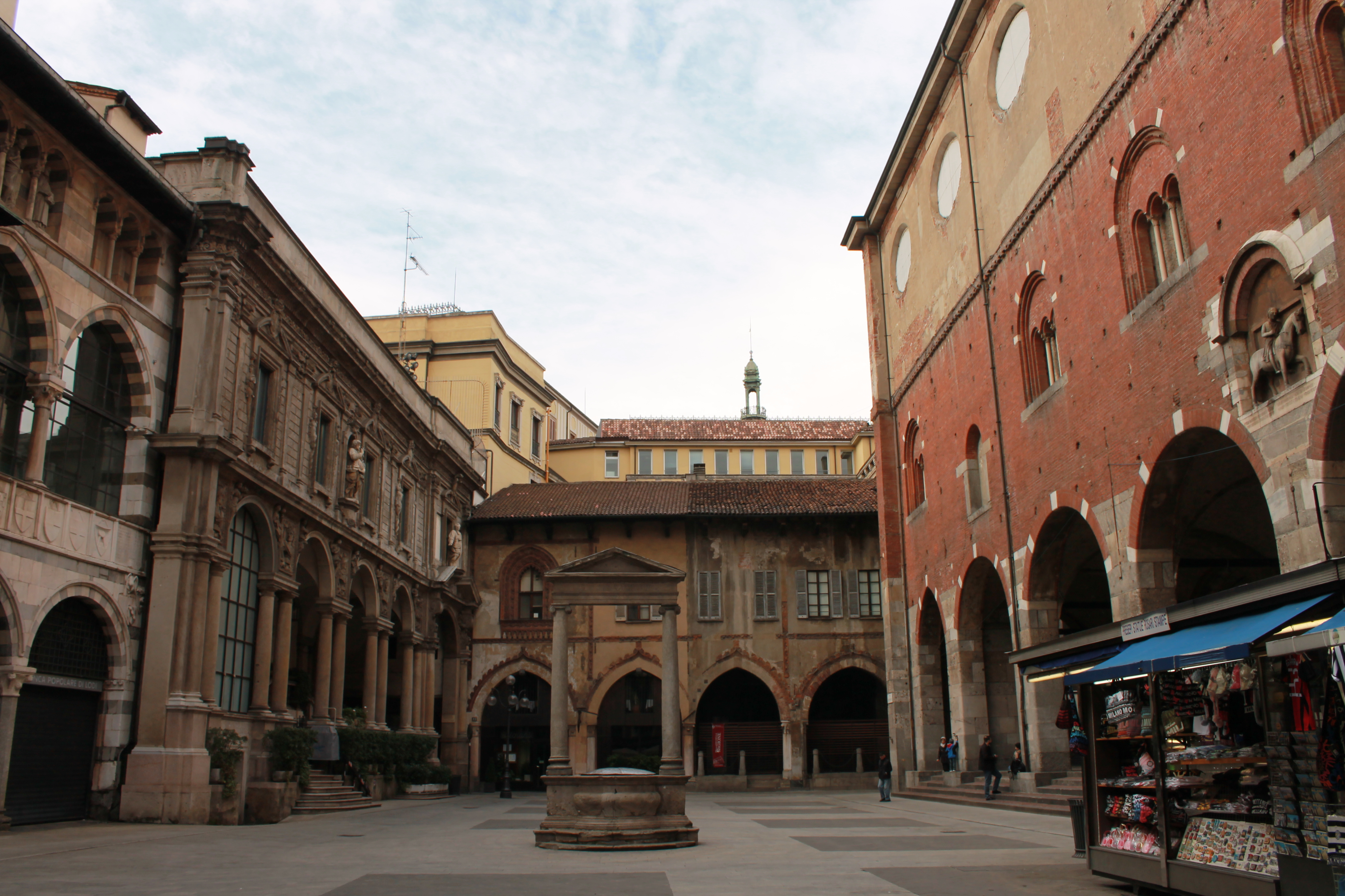 Piazza mercanti Milano - Italy